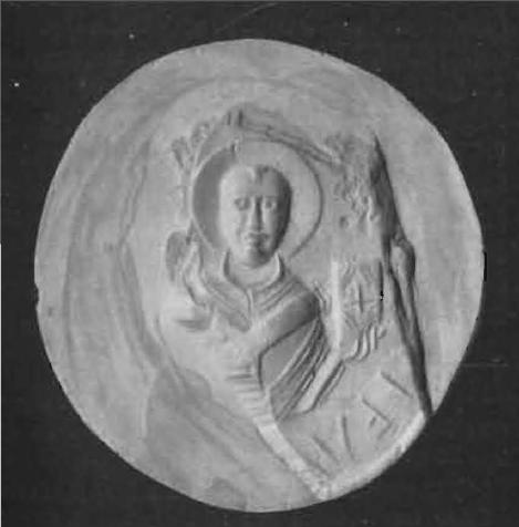 Seal of the Convent of the Fulda abbey